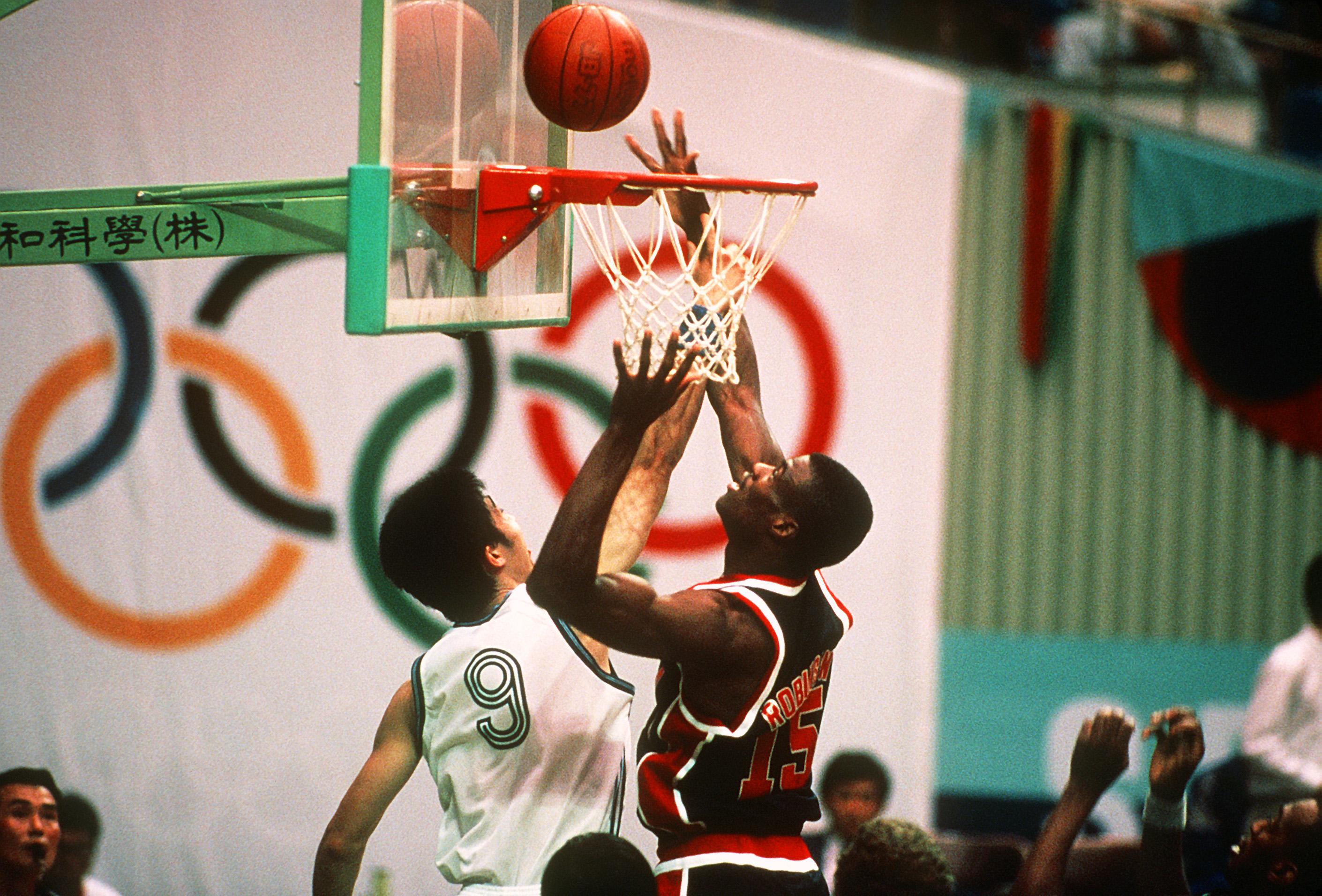 David Robinson of the U.S. Olympic men's basketball team goes up for a shot during a preliminary round game against the team from China during the XXIV Olympic Games.